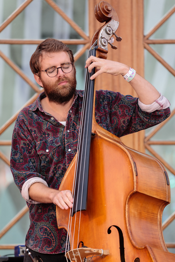 Depicted person: Jo Skaansar – Jazz bassistJo Skaansar in a concert with Hayden Powell Trio at the Borggården stage in the Vigeland Park. The concert was part of Piknik i Parken and took place on 17. June 2018 in Oslo. Lineup:Hayden Powell (trumpet)Eyolf Dale (piano)Jo Skaansar (double bass)